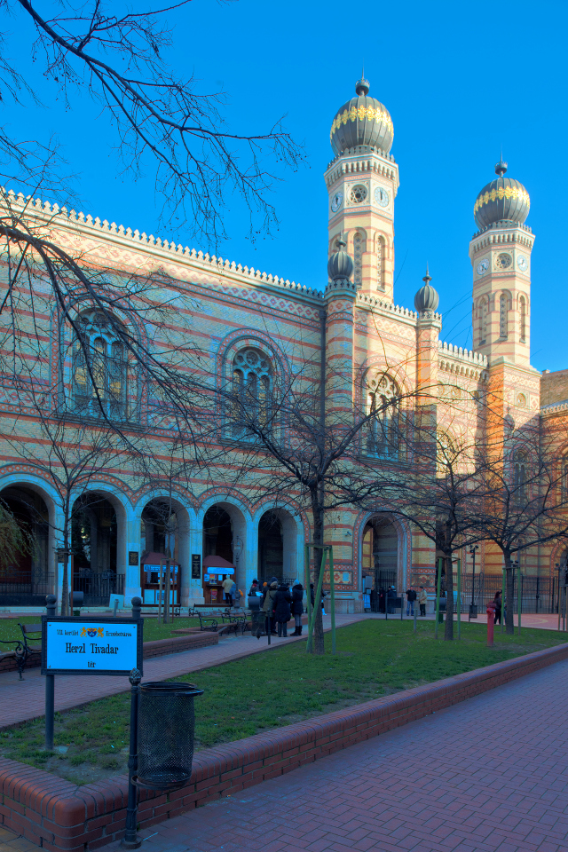 Dohány Street Synagogue, Budapest, Hungary Taken with a Nikon D3X and PC-E Nikkor 24mm f:3.5D ED lens.